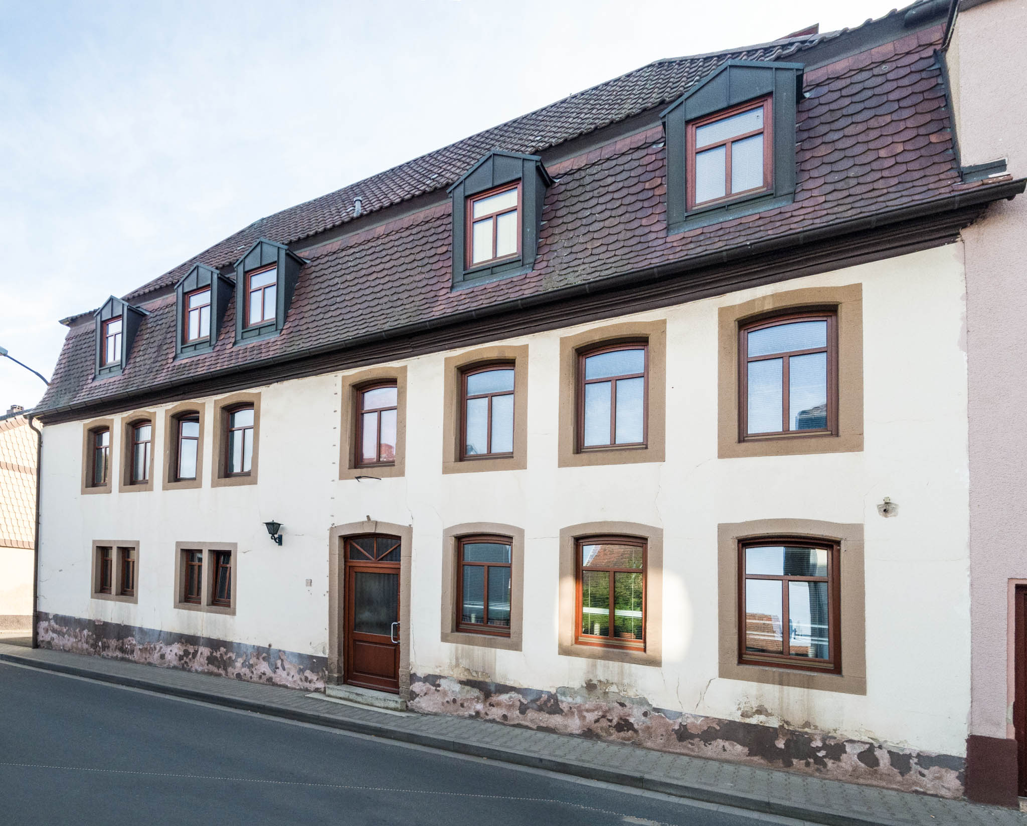 Münchweiler Synagoge